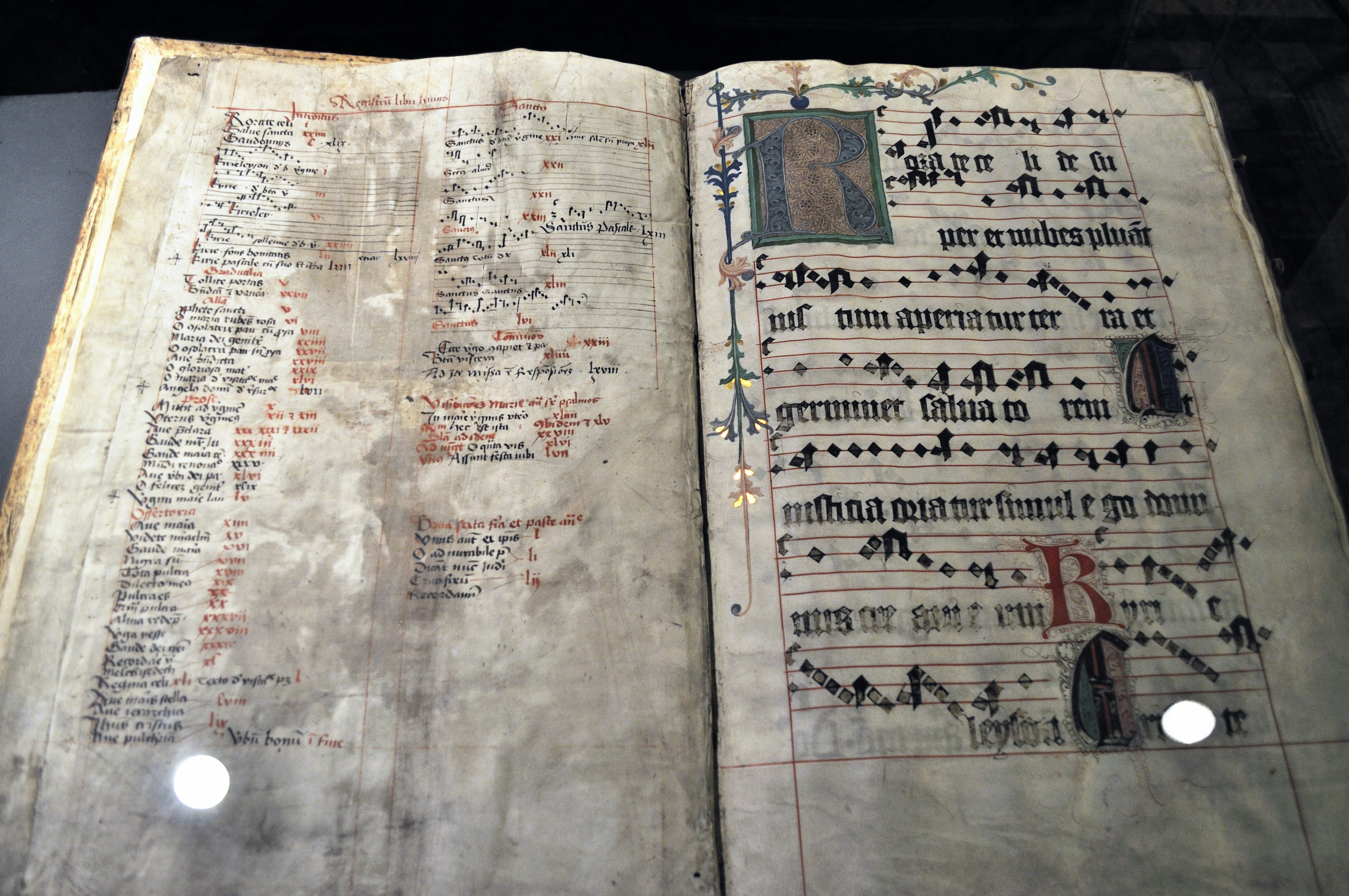 Picture taken in Malborg after Wikimania 2010 conference.